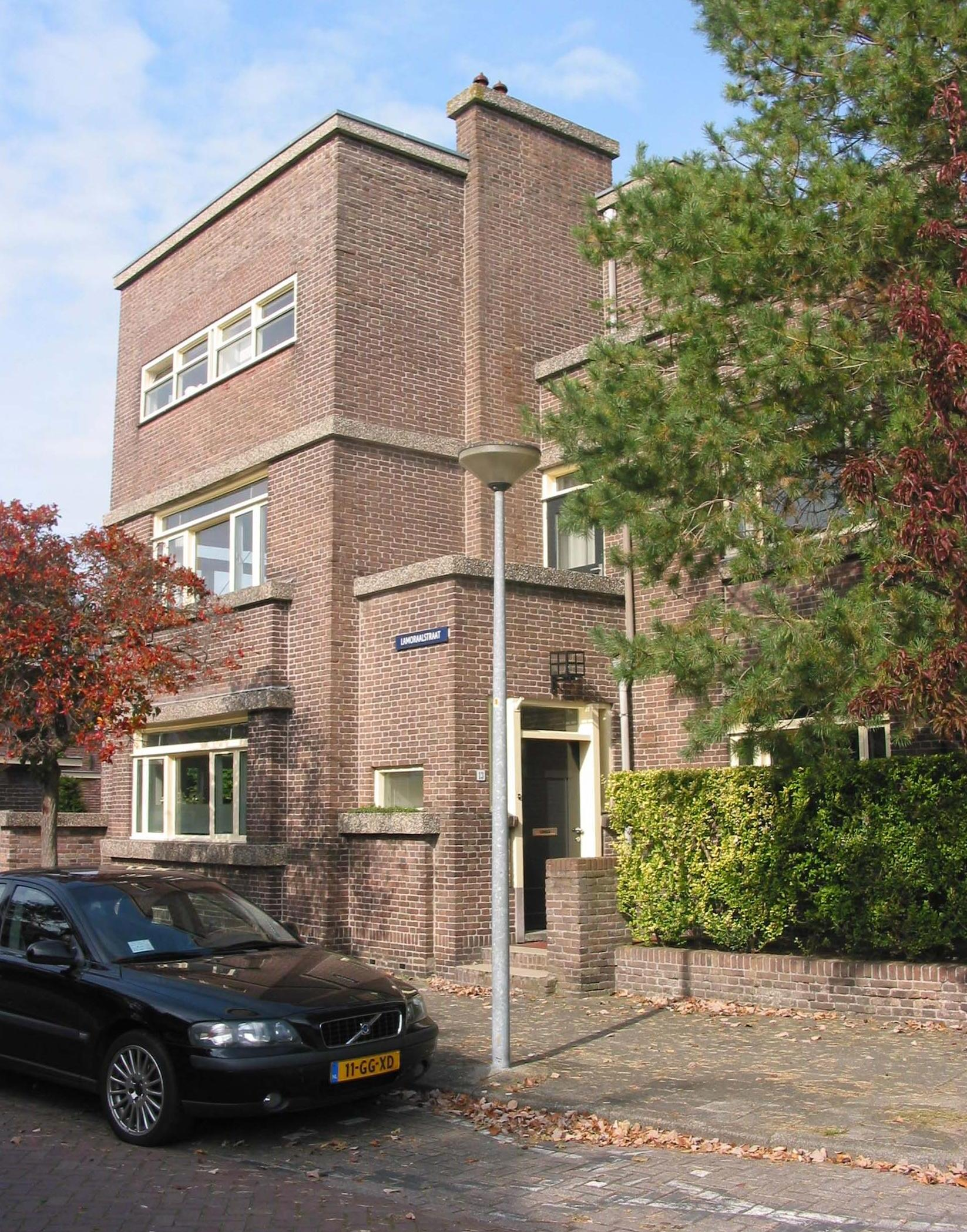 Jan Wils (architect). Duplex W. Kaas, Nassauplein 12-13, Alkmaar. 1918-1919.